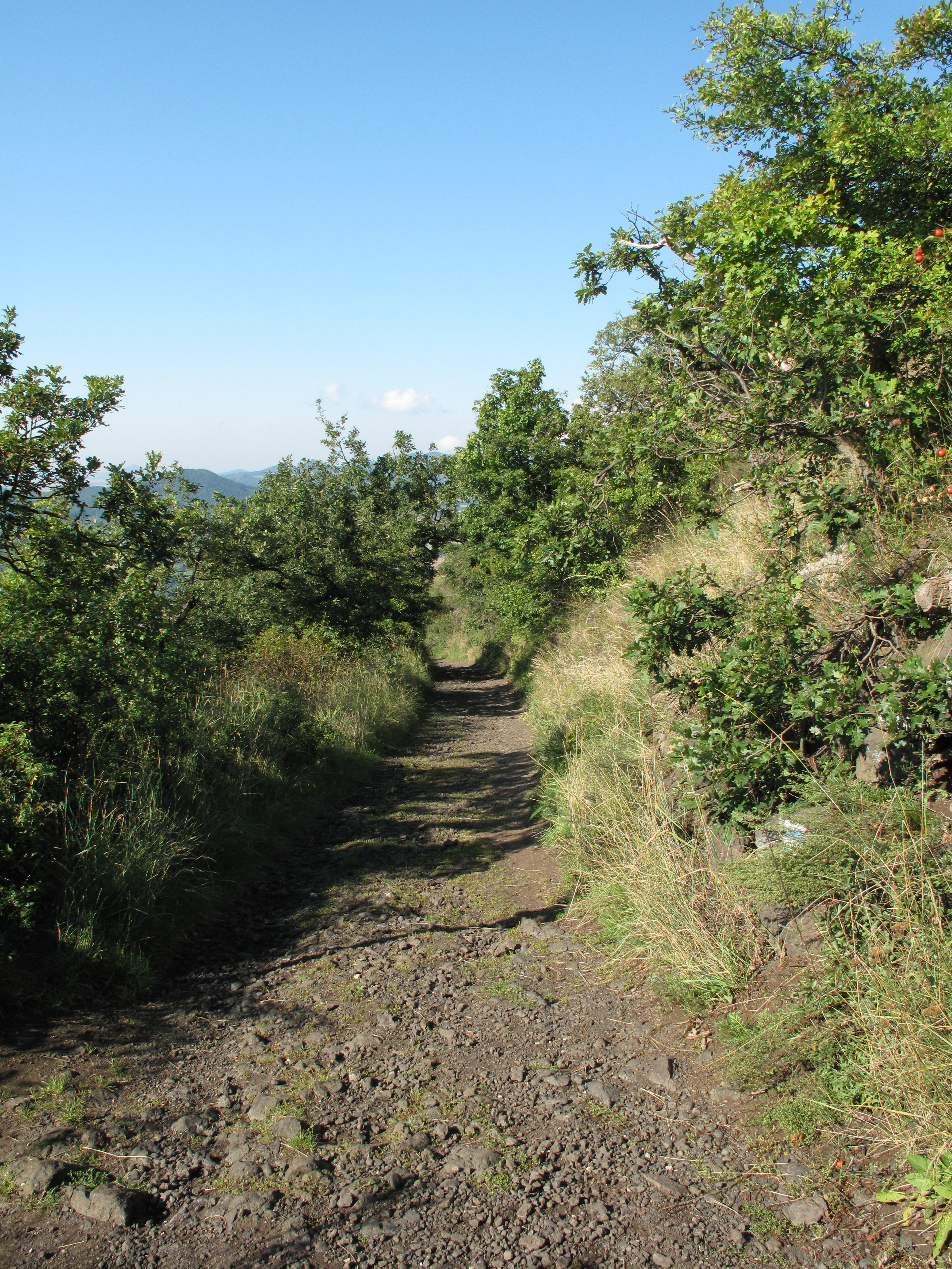 Trail to Lovoš Hill (570 m) passing National Nature Reserve Lovoš with warm oak forest.